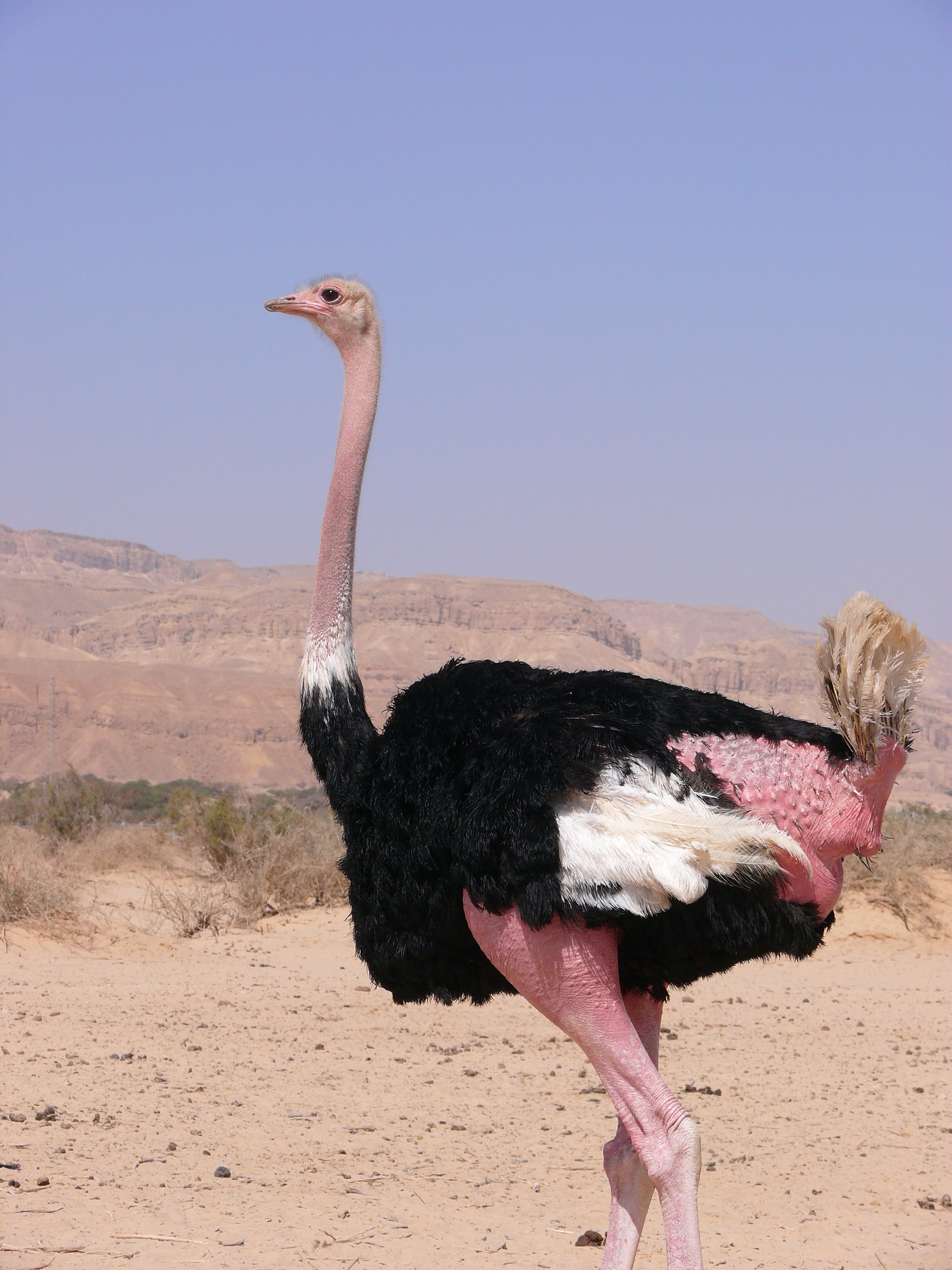 Struthio camelus, Chay Bar Yotvata, Israel